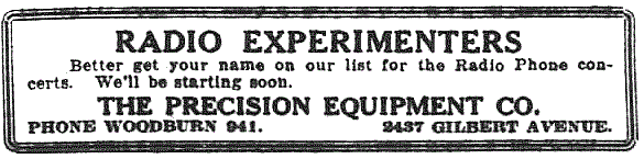 Advertisement for upcoming concerts broadcast over the Precision Equipment Company's Experimental radio station 8XB in Cincinnati.